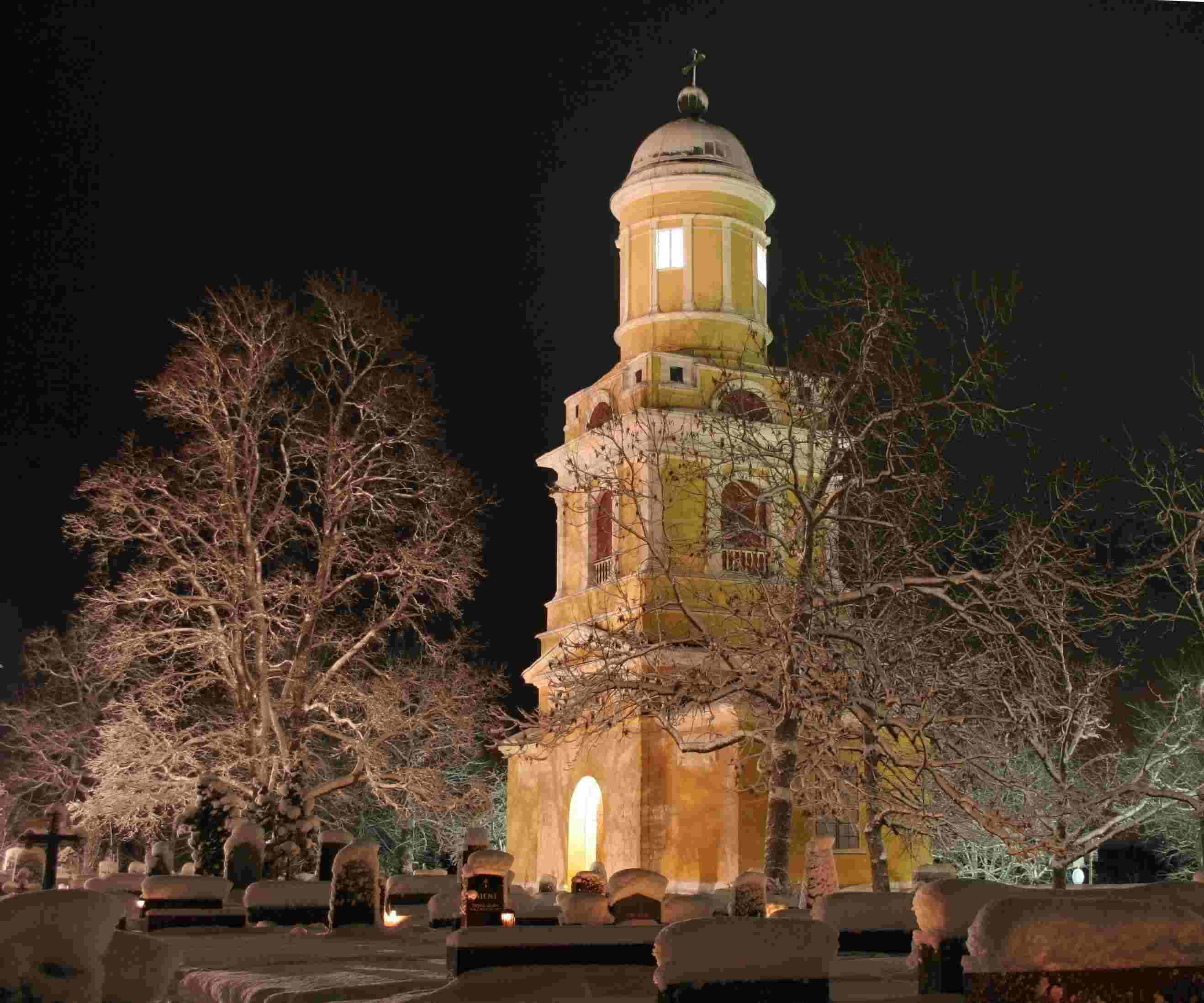 The bell tower of Hollola Evangelical Lutheran parish in the old center of Hollola municipality near the city of Lahti, Finland. The neoclassical (empire) tower was designed by architect Carl Ludvig Engel and it was built in 1829–1831.